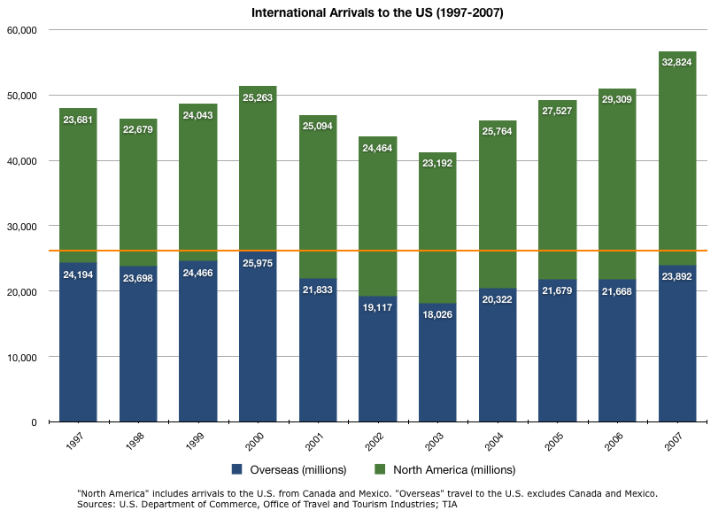 Chart of international arrivals to the United States, 1997-2007.